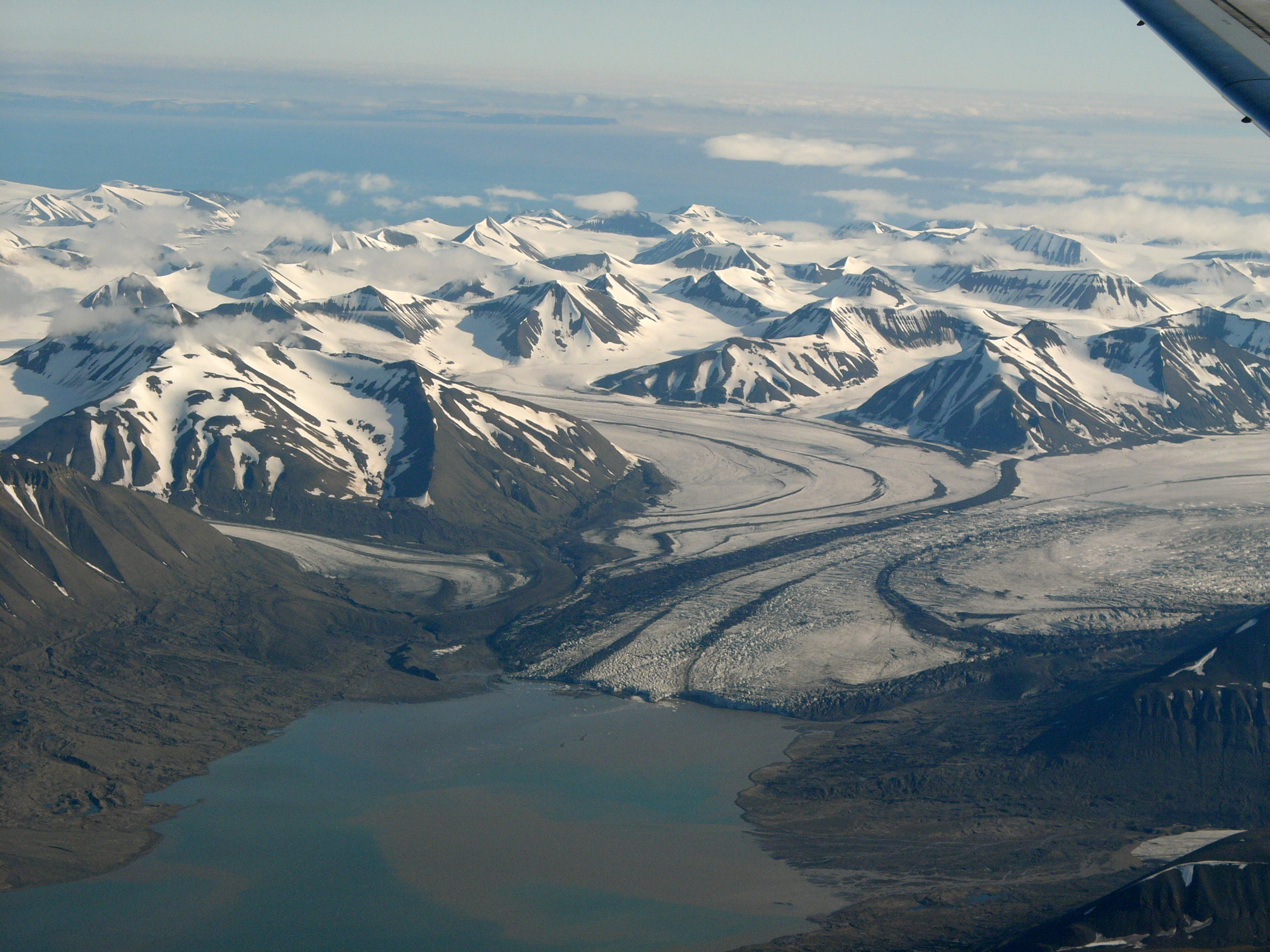 Glacier on Spitzbergen, view from plane during approach for landing in Longyearbyen. (User:Bjoertvedt: Seen from west towards east, this is definitely Rindersbukta with Paulabreen on 77*45'N - 17*10'E.)